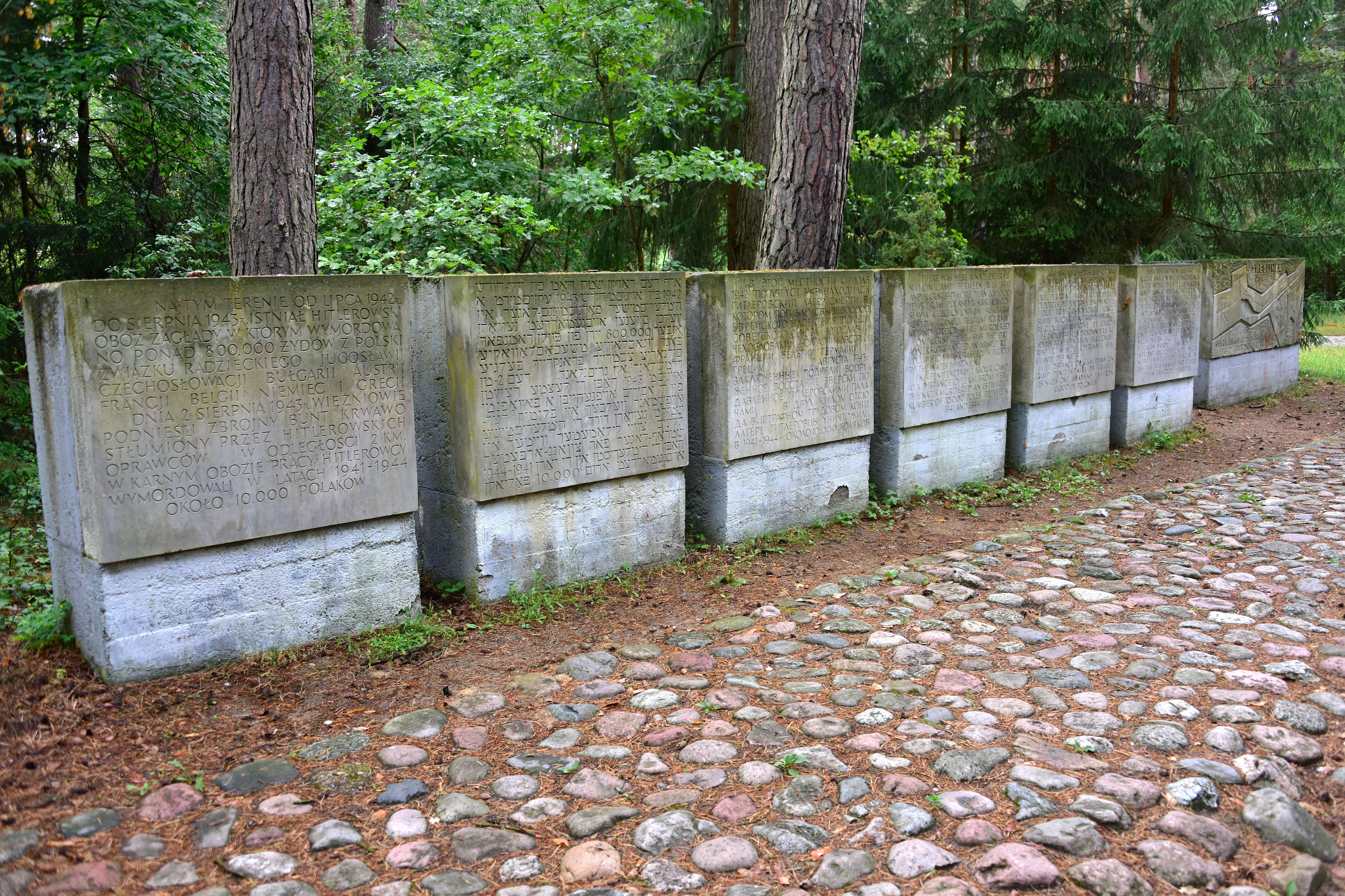 Stone boards near the entrance to Treblinka II camp (death camp)